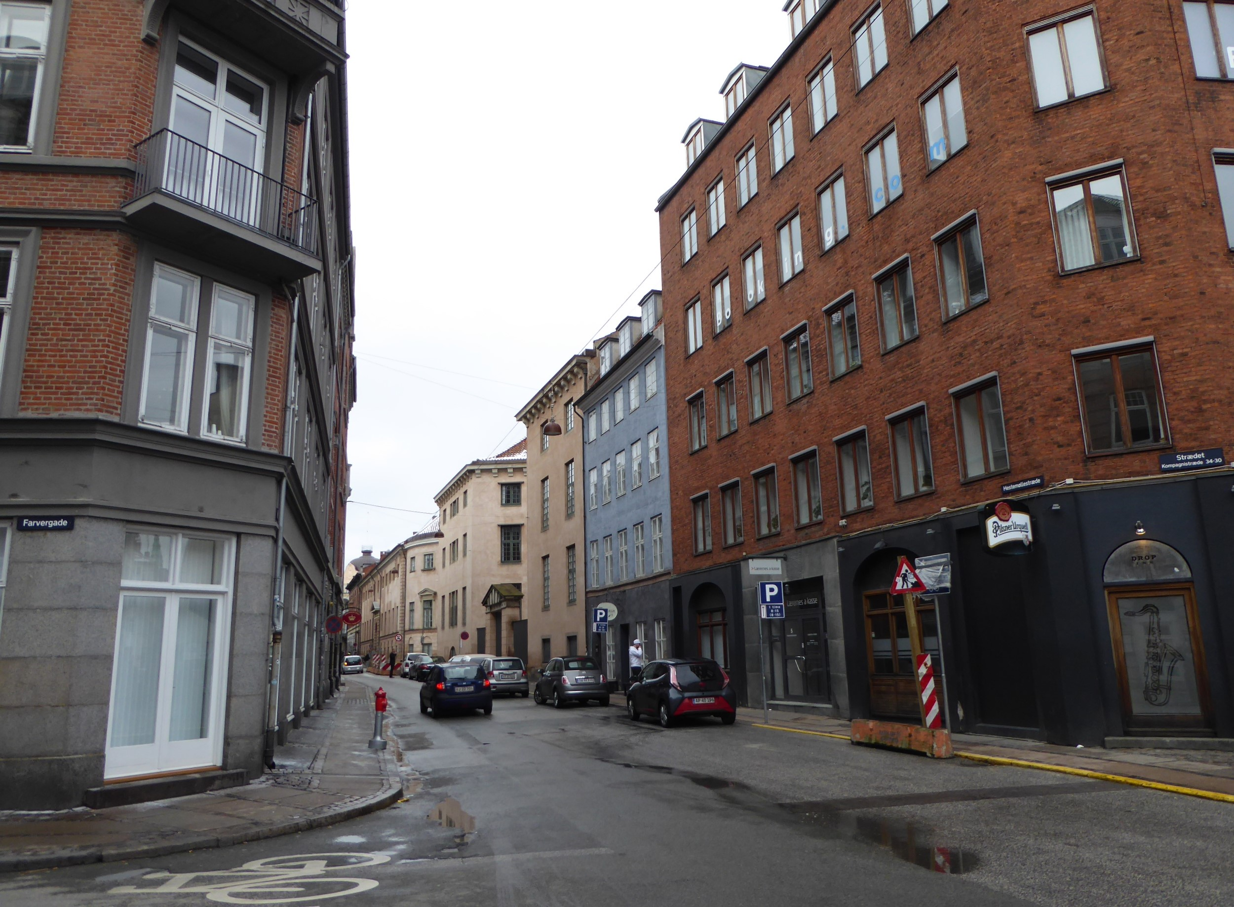 The street Hestemøllestræde at Farvergade in Indre By in Copenhagen.